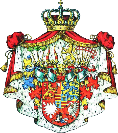 Coat of arms of the House of Glücksburg.